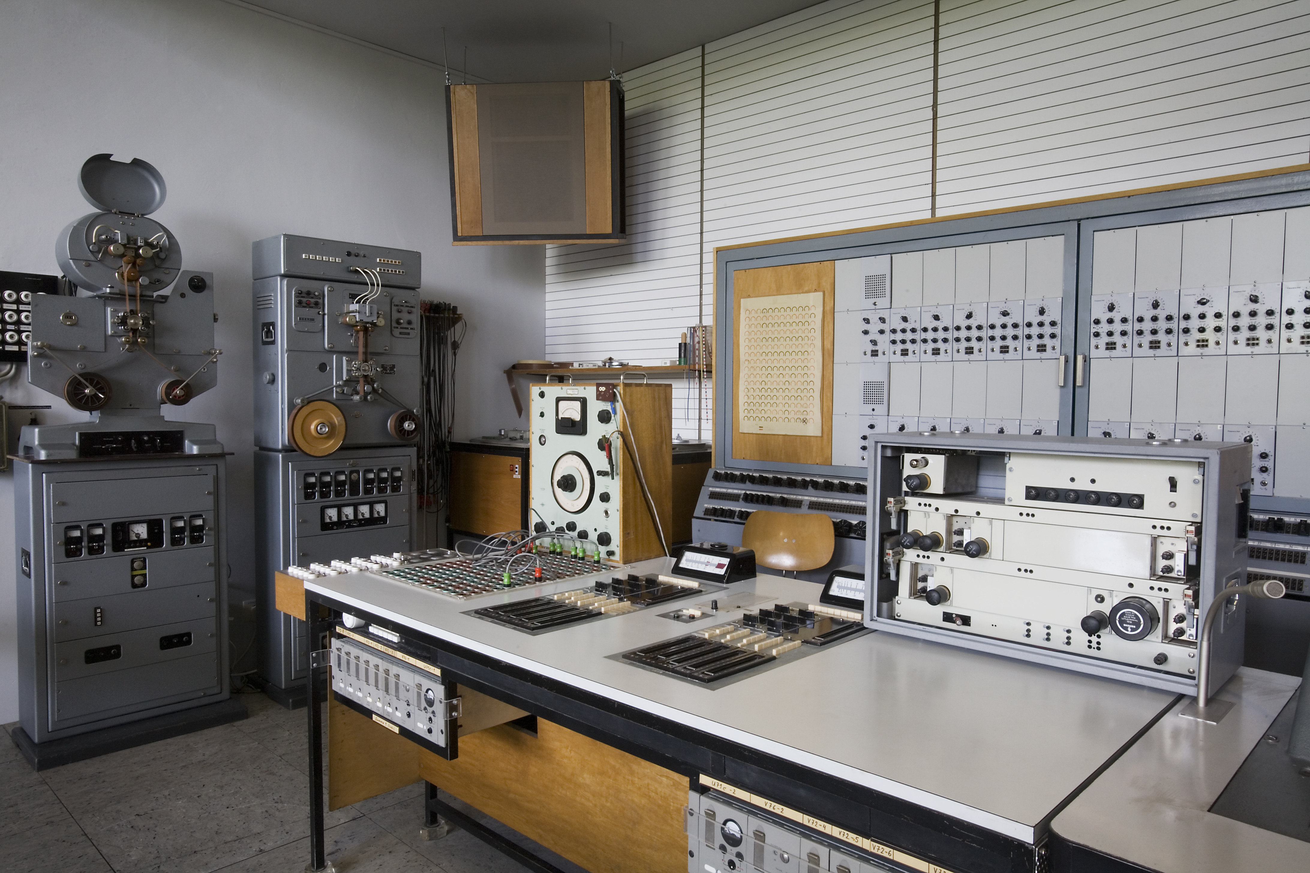 Details of a Siemens electronic music recording studio 1955